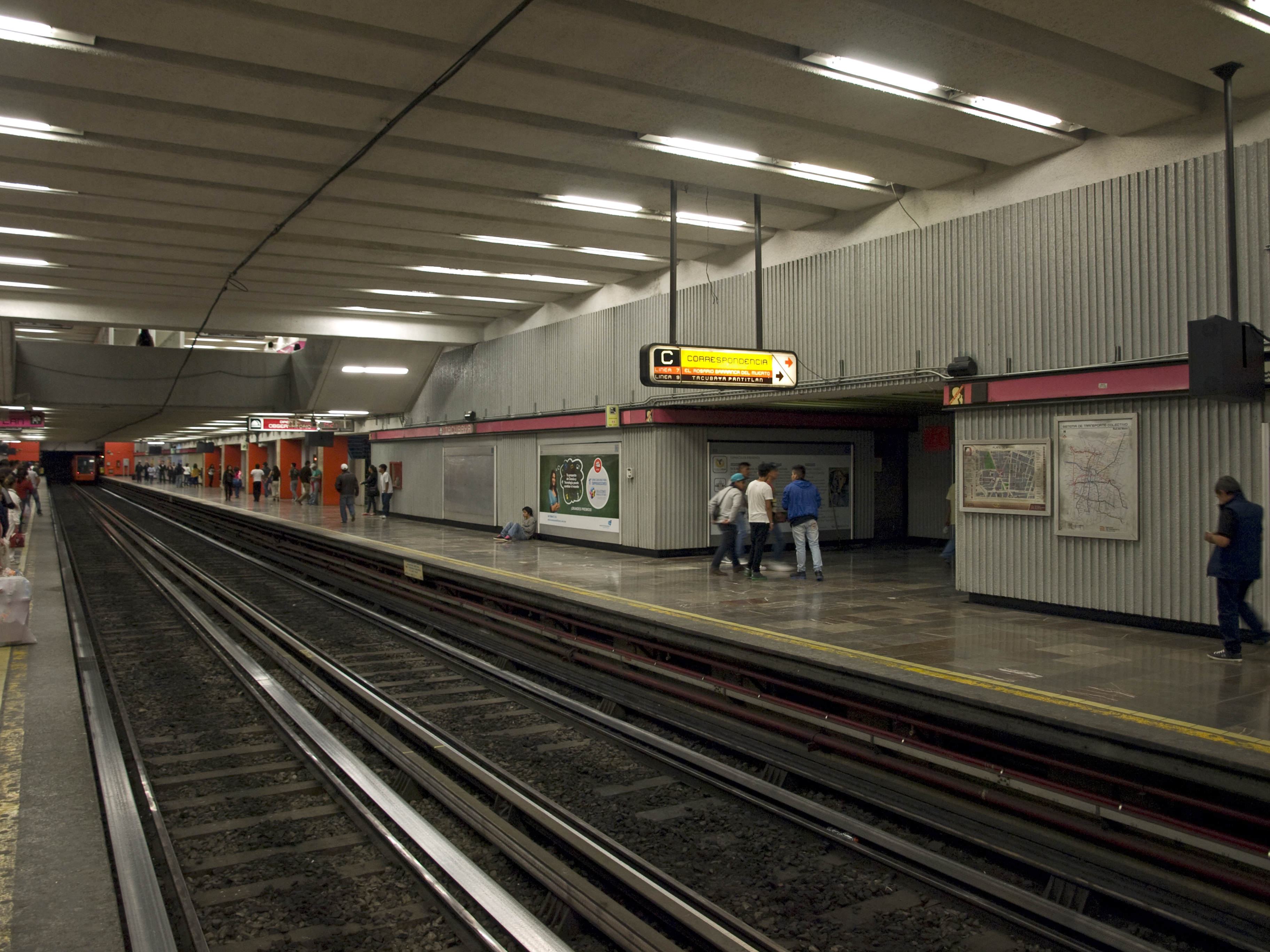 Platforms, Metro Tacubaya Line 1, Mexico City